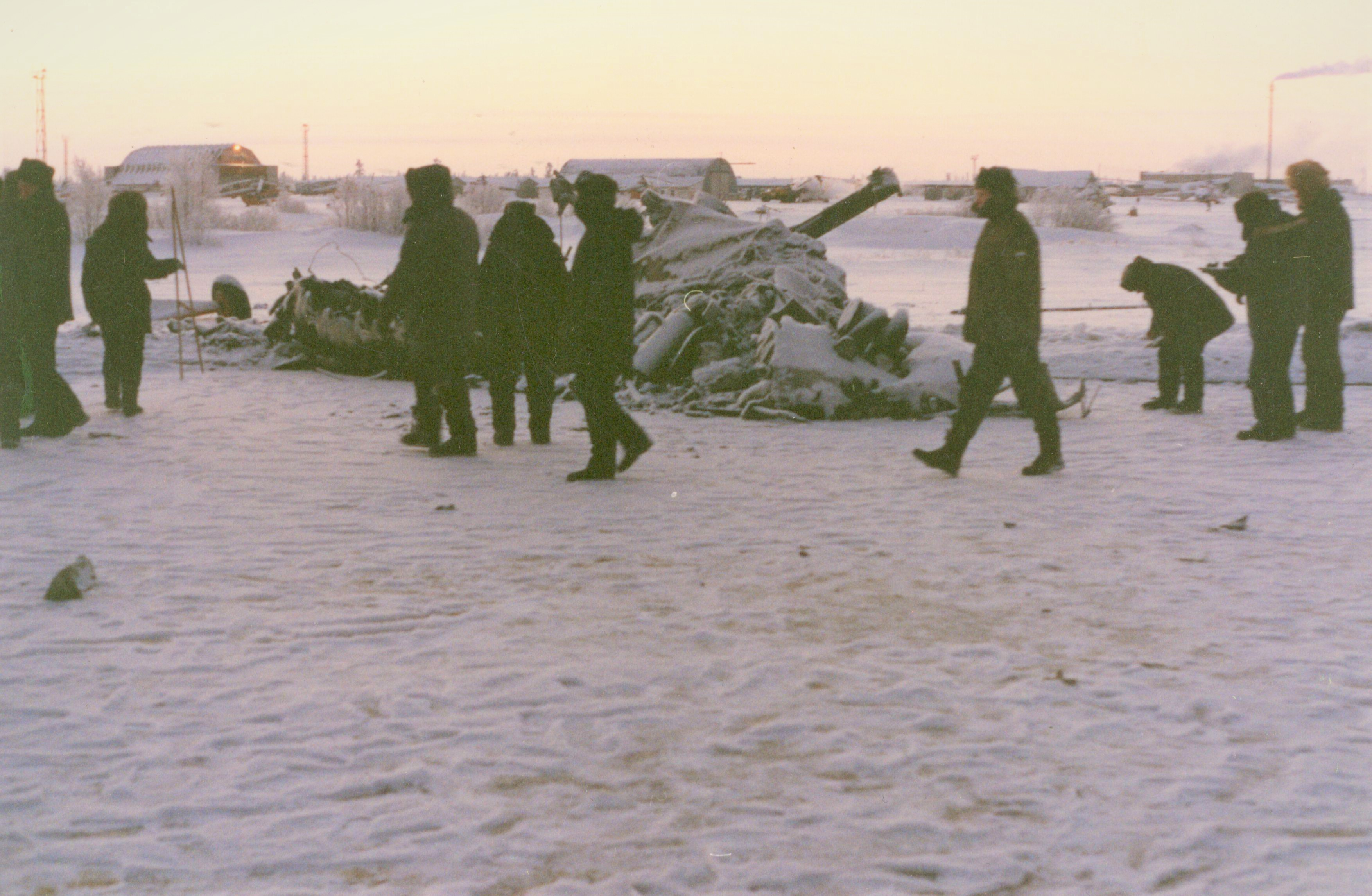 An-12 after the accident in Naryan-Mar on December 11, 1997